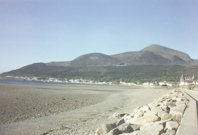 The Beach at Newcastle, Co.Down. An empty sandy beach at Newcastle early on a sunny summer's morning. The background demonstrates clearly that the mountains of Mourne really do 'sweep down to the sea'